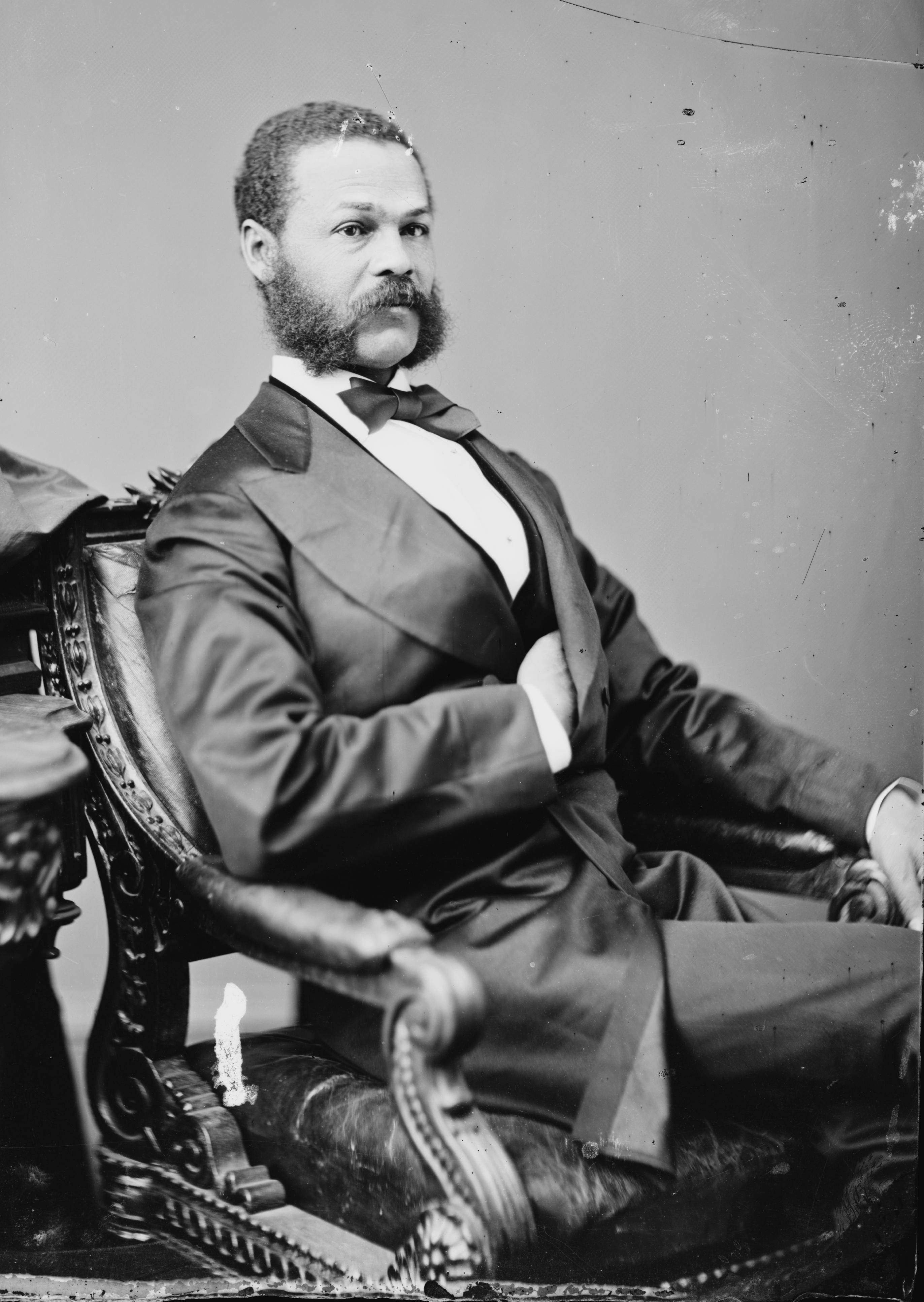 Jefferson F. Long. Library of Congress description: "Hon. Jefferson Franklin Long of GA."